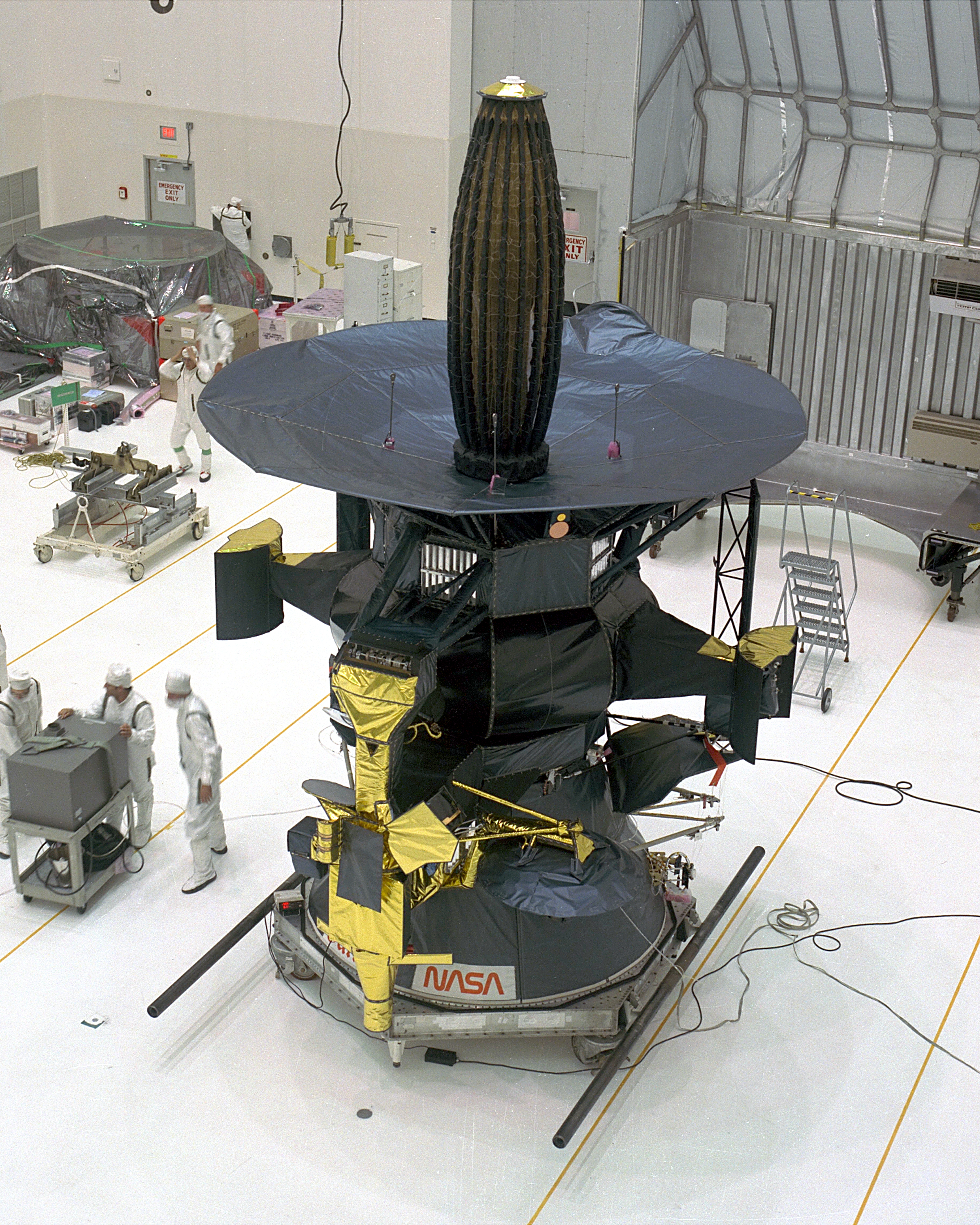 In the Vertical Processing Facility (VPF), the spacecraft Galileo is prepared for mating with the Inertial Upper Stage booster. Galileo will be launched aboard the Orbiter Atlantis on Space Shuttle mission STS-34, October 12, 1989 and sent to the planet Jupiter, a journey which will take more than six years to complete.